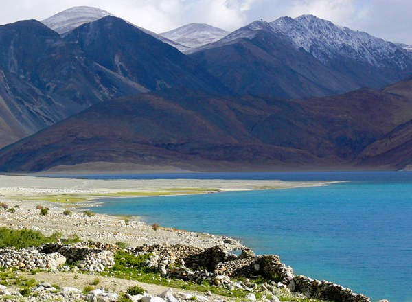 Pangong Lake is situated at 14,000 feet (4,267 m). A long narrow basin of inland drainage, hardly six to seven kilometer at its widest point and over 130km long, it is bisected by the international border between India and China. Spangmik, on Pangong, affords spectacular views of the mountains of the Changchenmo range to the north, their reflections shimmering in the ever-changing blues and greens of the lake's brackish waters. Above Spangmik are the glaciers and snowcapped peaks of the Pangong range.